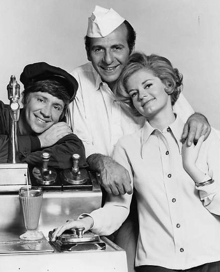 Publicity photo of the cast of the television program The Good Guys. From left: Bob Denver, Herb Edelman, Joyce Van Patten.